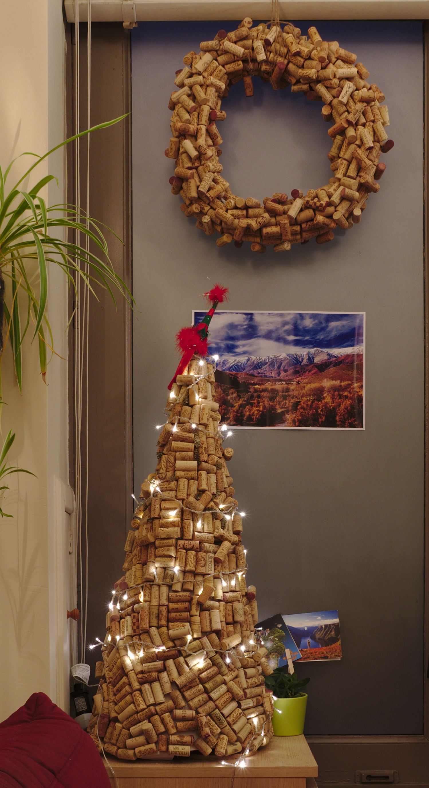 Christmas tree and wreath made out of corks. Crop of File:Christmas tree and wreath made out of corks.jpg.